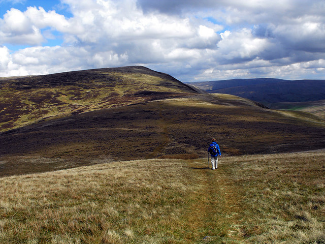 Calf Top, Middleton Fell, as seen from Castle Knott